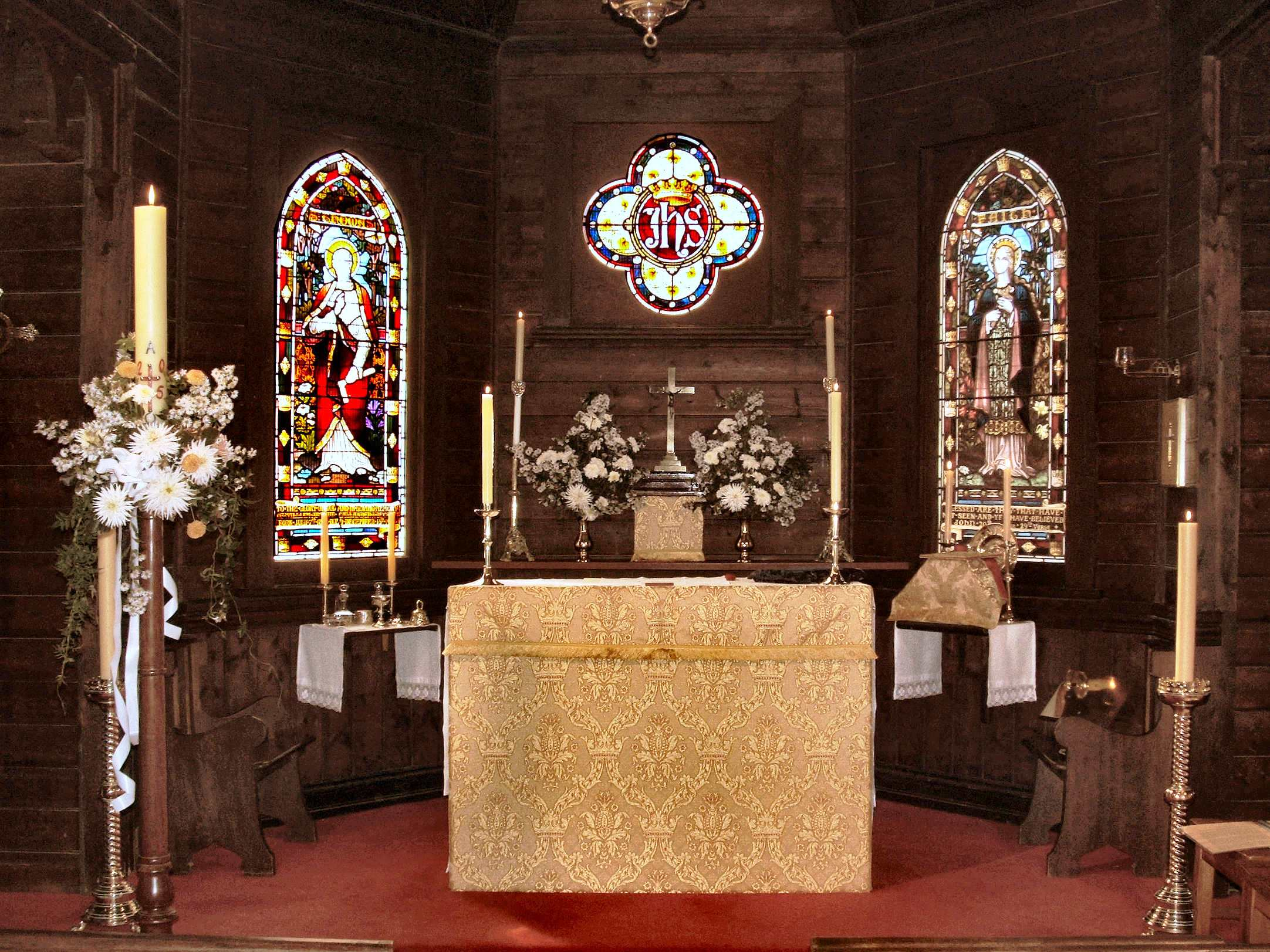 Photo of altar